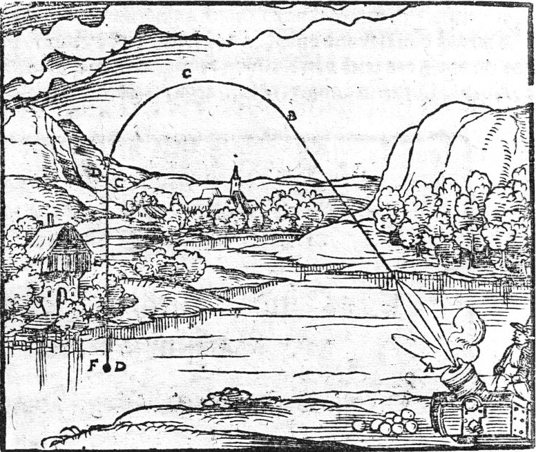 Flight trajectory